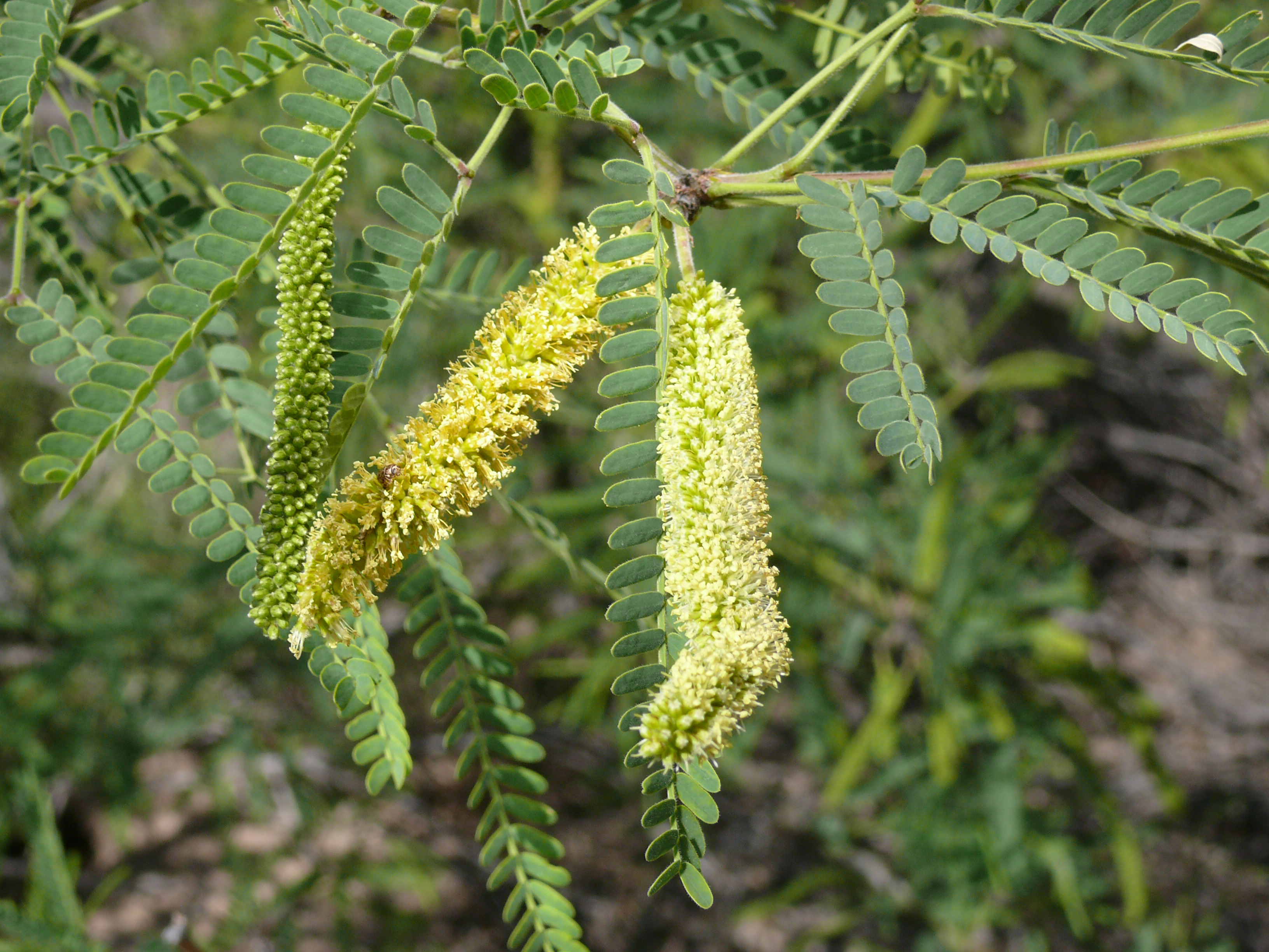 Catkins on a velvet mesquite (Prosopis velutina) in full flower. Taken in mid-April in Tucson, Arizona.